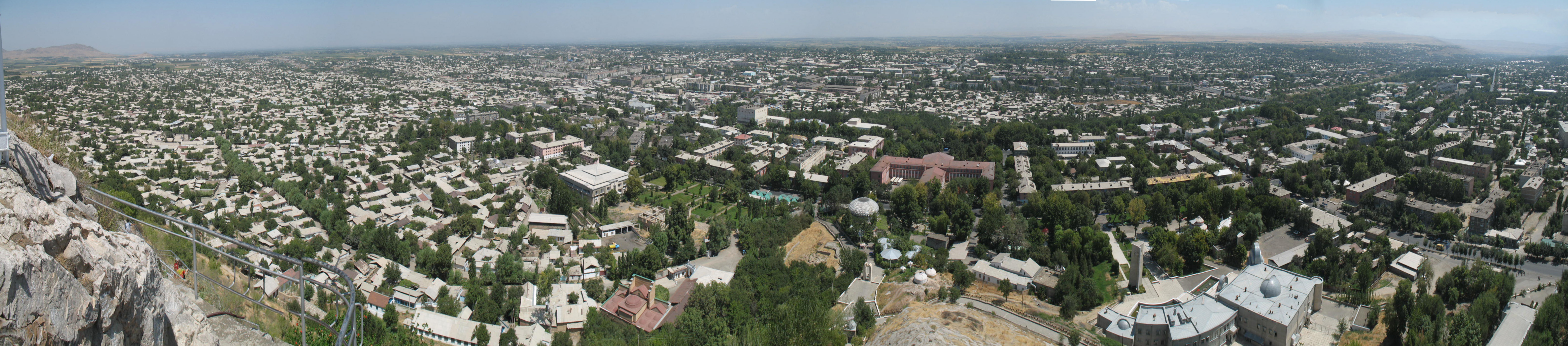 City scape of Osh, taken from Sulayman Too Кыргызча: Оштун панорамасы, Сулайман Тоонун үстүнөн түшүрүлгөн